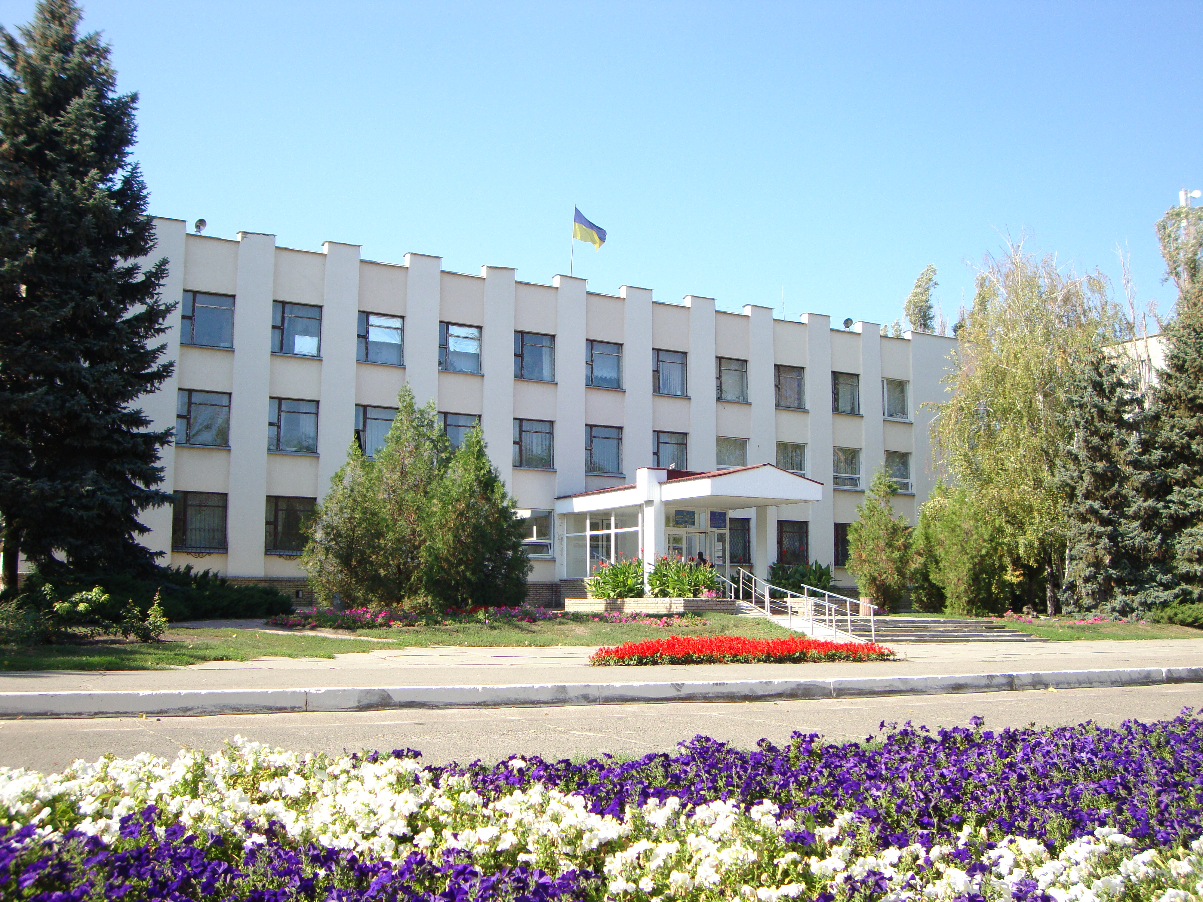 Administration of Zhovtnevy rayon of Luhansk